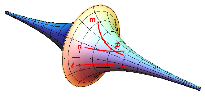 A model of hyperbolic geometry. Passing through the point P are countless lines (e.g. m and n) that are all parallel to the straight line L.